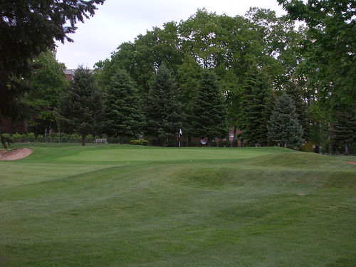 The 11th Green on the Penn State White Course taken in May 2005 by Sir Putts-a-lot. This view shows many of the changes to the golf course since its inception in 1926, including planting and growth of pine trees and the shrinking and narrowing of fairways and greens. Also shows abandoned bunker in the right middle of the picture.